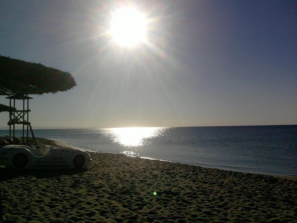 Sunrise (Marina di Ginosa), Zanzibar beach